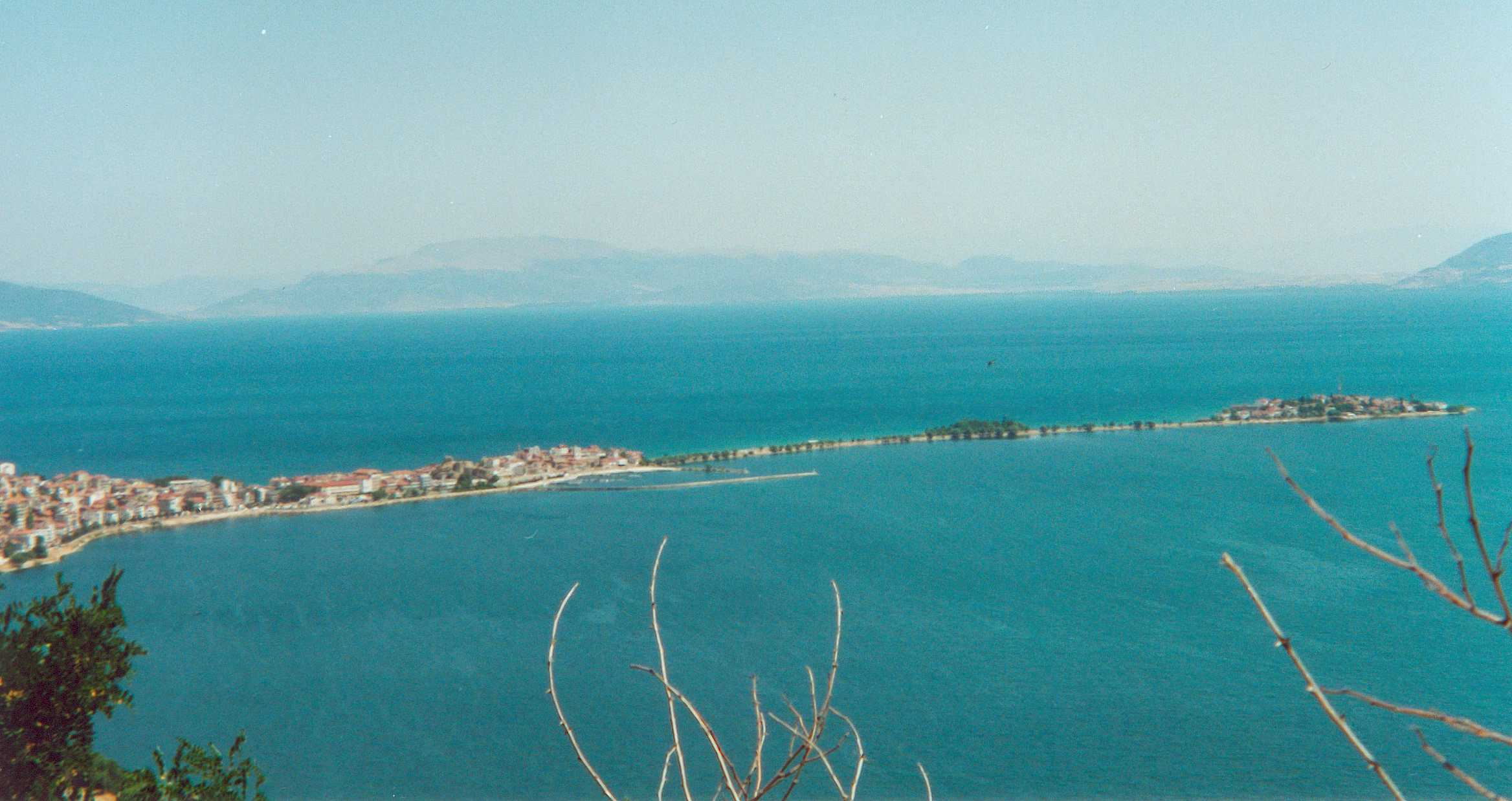 Lake Eğirdir with the town Eğirdir (on the left) and the two islands (Canada and Yesilada) with the causeway that connects them.